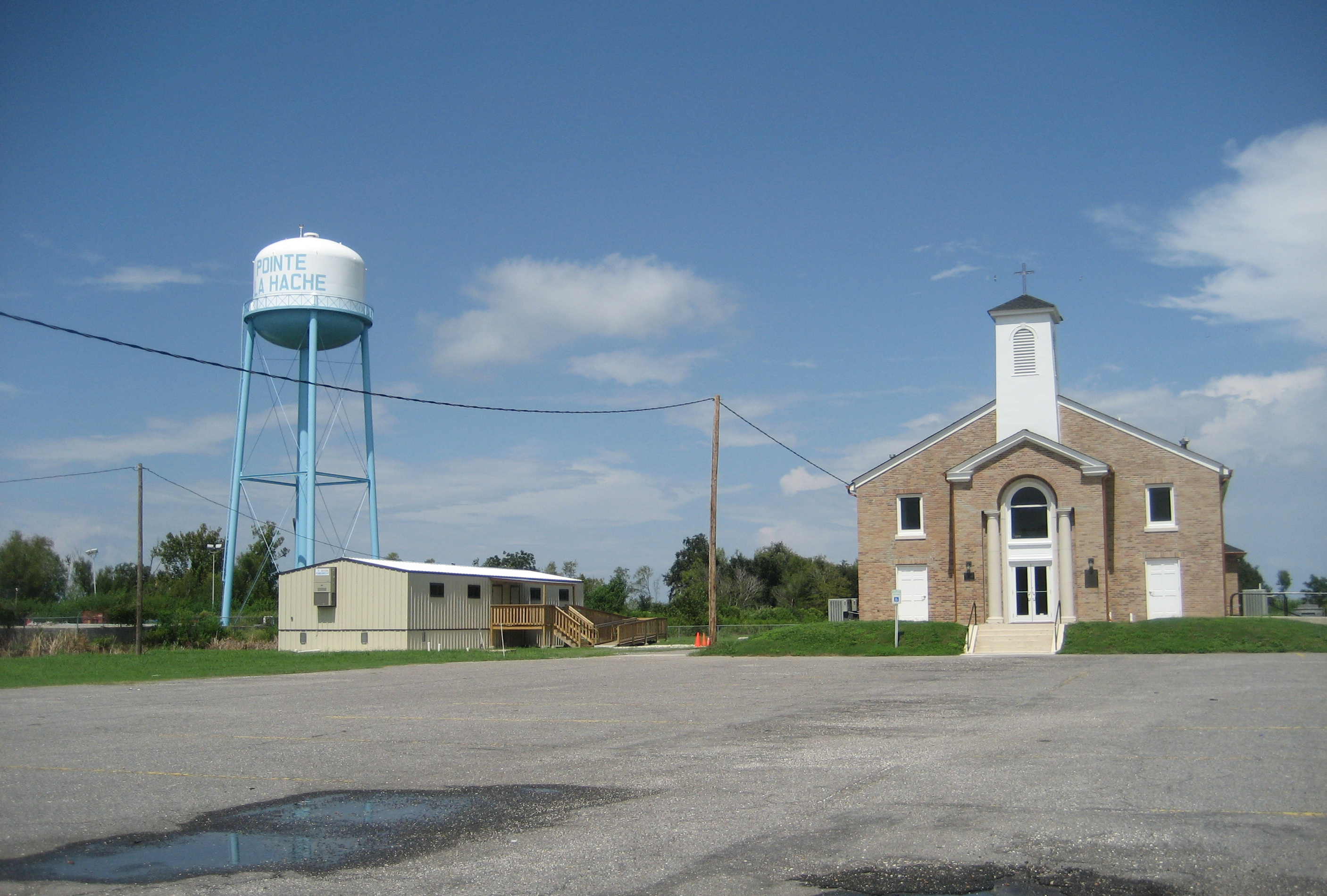 Pointe à la Hache, Plaquemines Parish, Louisiana. Water tower and St. Thomas Church.